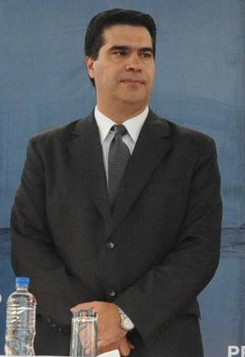 Jorge Capitanich